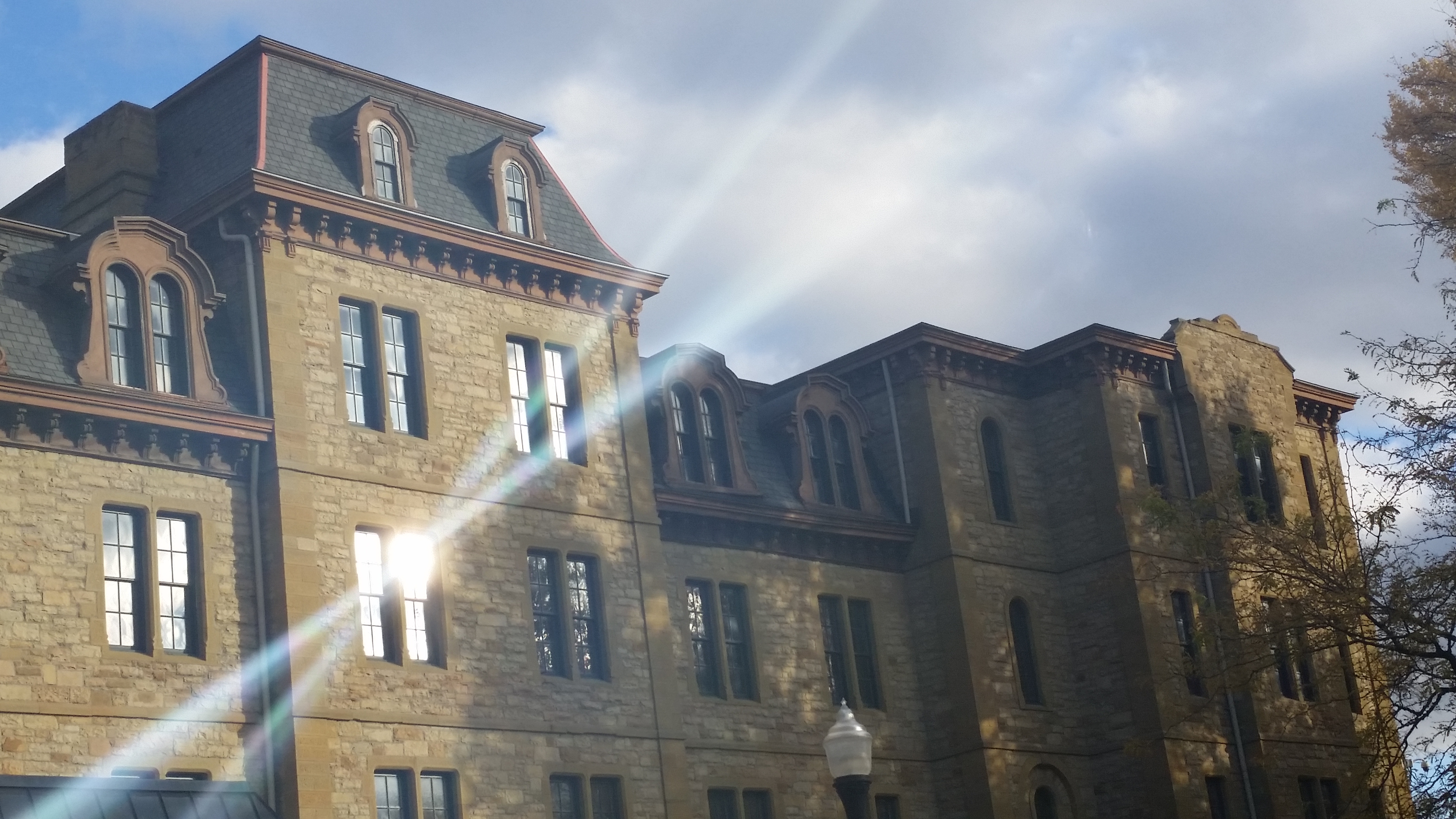 View of the top of Columbus public health building, somehow got a lens flare in there